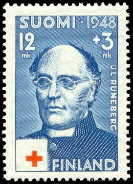 Postage stamp depicting the Finnish poet J. L. Runeberg